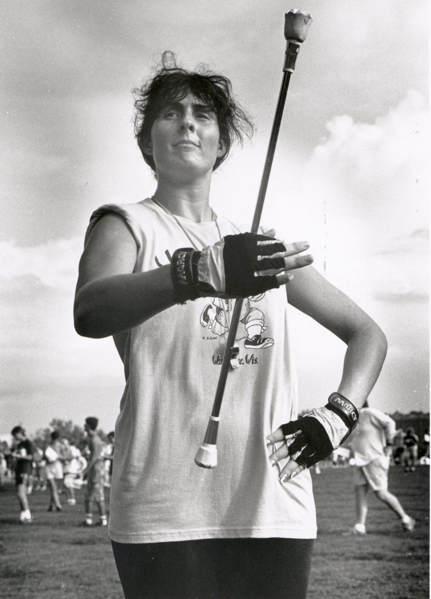 Dee Willems, first female drum major at UW-Madison. n: 1989. Madison, Wisconsin. Image ID# S06352. For more information about this image or UW-Madison campus history, .